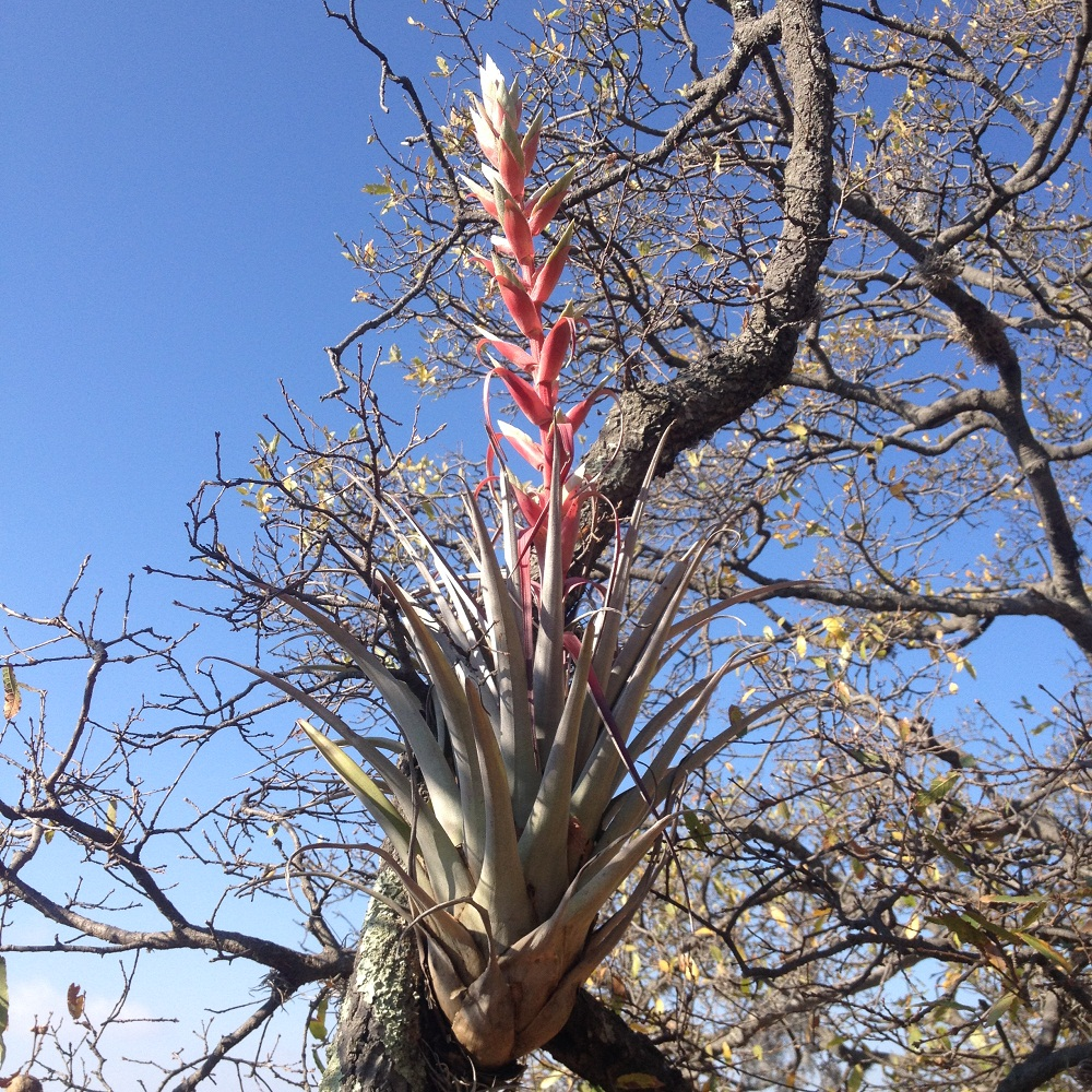 Tillandsia bourgaei is an epiphyte bromeliad endemic to Mexico, here seen growing on an oak in Acajete (state of Puebla).